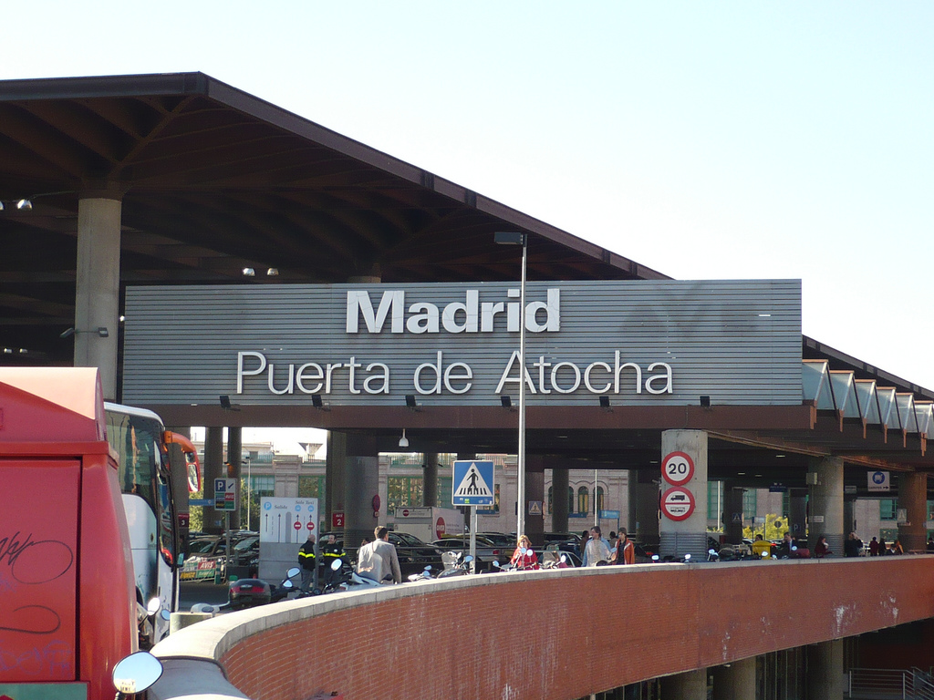 Atocha railway station in Madrid (Spain).